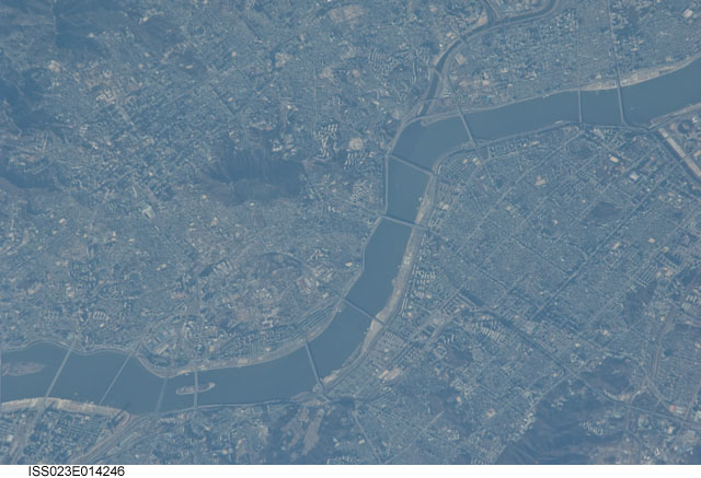 Astronaut Photo of Seoul, South Korea taken from the International Space Station (ISS) during Expedition 23 on March 28, 2010.